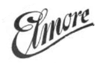 Elmore Automotive logo 1909